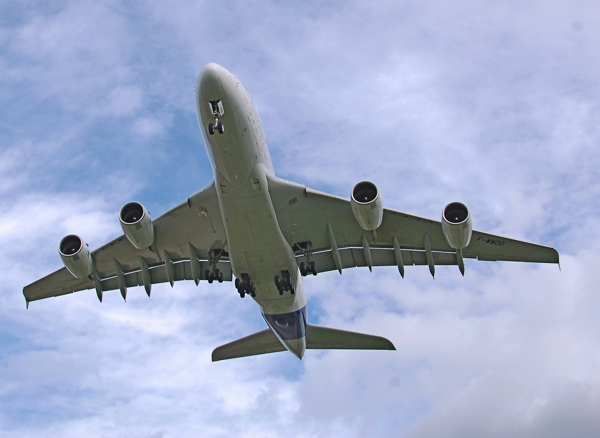 Airbus A380-800 (F-WWDD) in Airbus markings overflies Filton Airfield, Bristol, England.